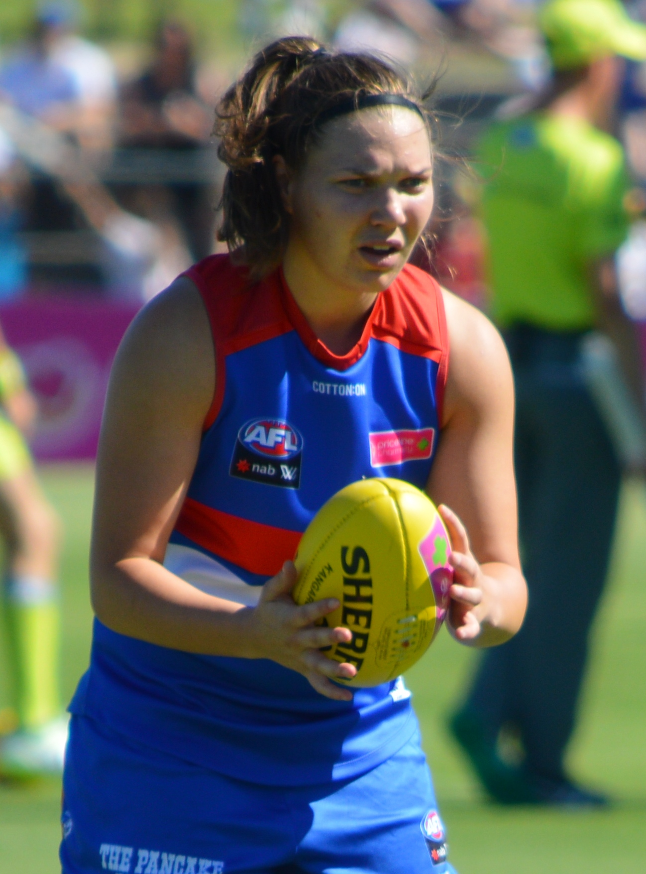 Kirsty Lamb during the round 1, 2018 AFL Women's match between the Western Bulldogs and Fremantle.